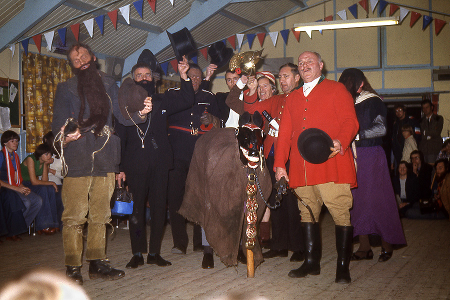 A scan from a print of a 35mm transparency which I took of the Antrobus Soul Cakers at the end of a performance in a village hall in or near Antrobus, Cheshire, England in the mid 1970s. The Soul Cakers are a traditional group of mummers, who perform around All Soul's Day (October 31st, Hallowe'en) each year. The characters are (left to right) Beelzebub, Doctor, Black Prince, Letter-In, Dairy Doubt, King George, Driver, Old Lady, and Dick, the Wild Horse in the foreground.